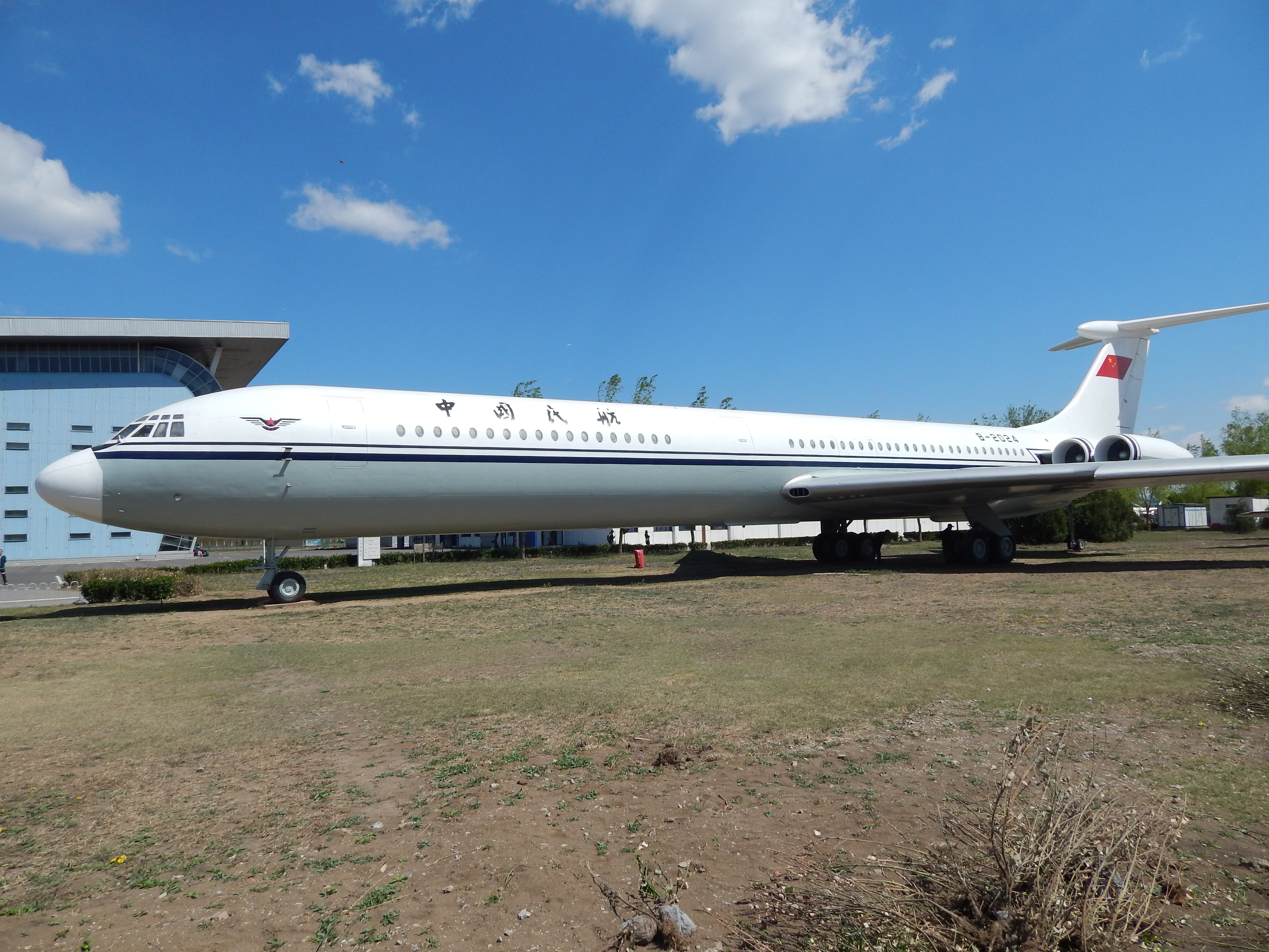 You can get right up close to this elegant beast